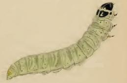 Stainton’s Natural History of the Tineina (1855–1873): Mirificarma lentiginosella